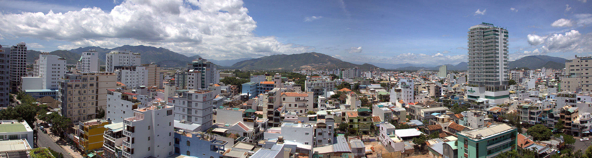 NhaTrang central part from the roof of the hotel